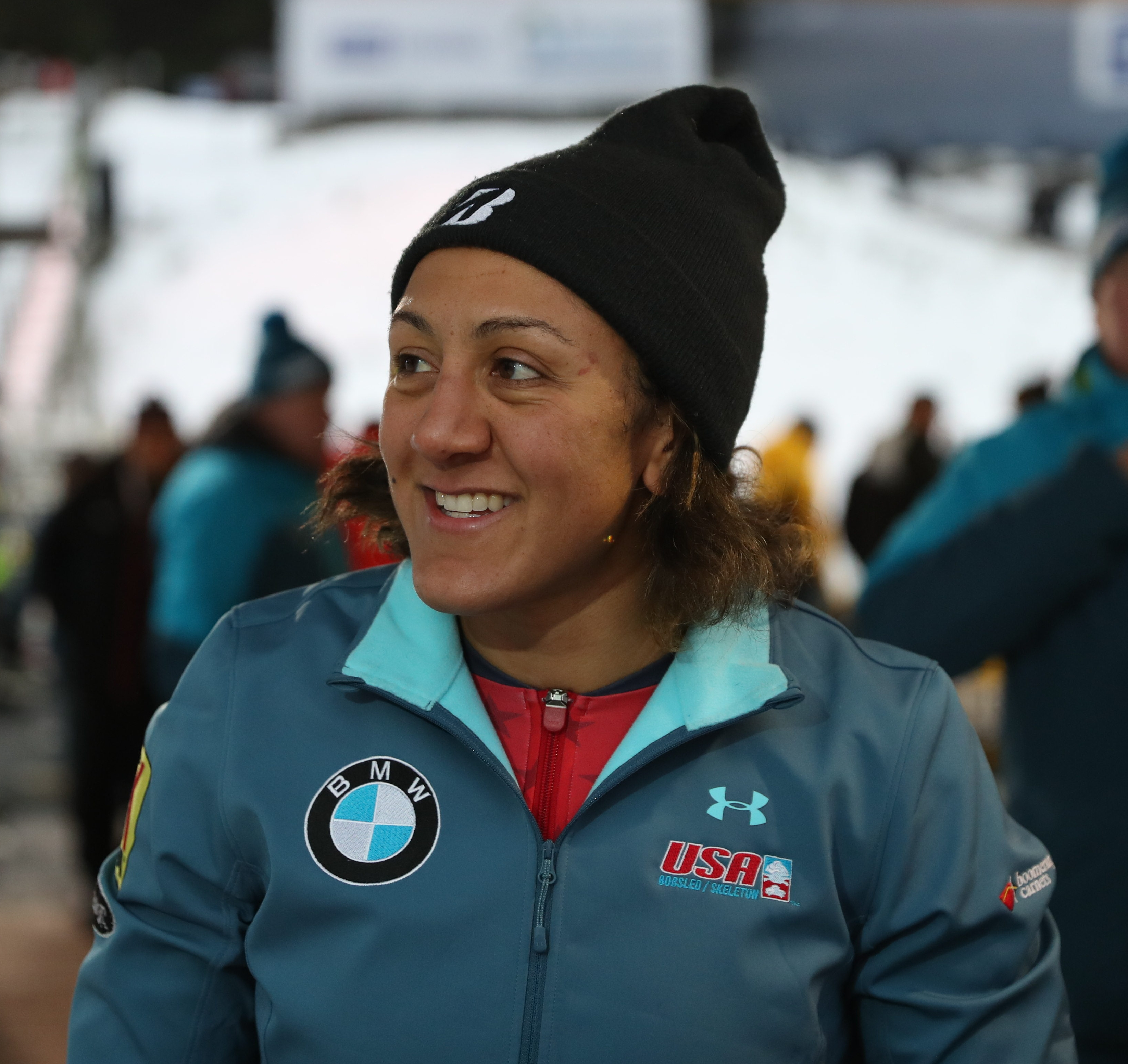 2-man Bobsleigh Women's World Cup race at the 2018/19 Bobsleigh World Cup in Altenberg